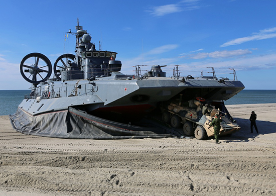 Десантный корабль «Мордовия» выполнил артиллерийские стрельбы и высадил морской десант в рамках совместного оперативного учения «Щит Союза-2015»